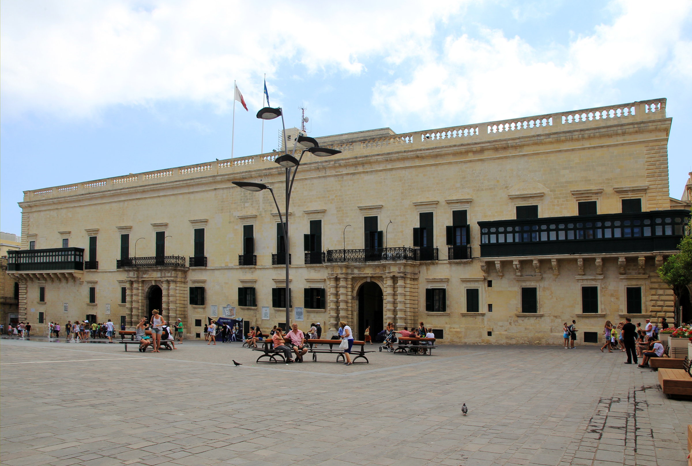 Grandmaster's Palace at Misraħ San Ġorġ, Triq ir-Repubblika in Valletta, Malta